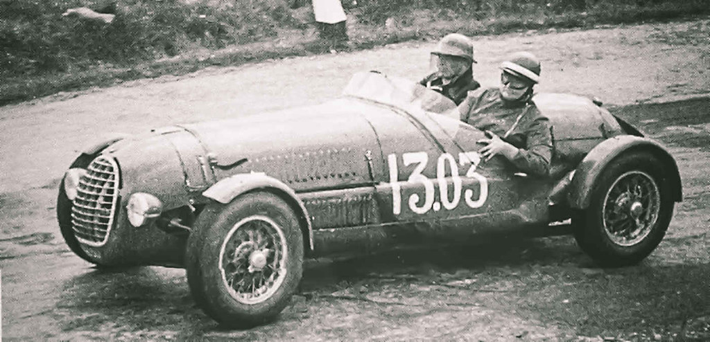 Clemente Biondetti drives his Ferrari-Jaguar "Special" at Coppa Toscana on 3 June 1951. He had entry #13.02, won his class and ended in 4th overall. Co-driver was G. Vinci.[1] The car was a "special", built with various parts from various brands, with a Jaguar engine. One Ferrari historian thinks that the bodywork of this car may have originally sat on the the Ferrari 166 s/n 002C.[2]